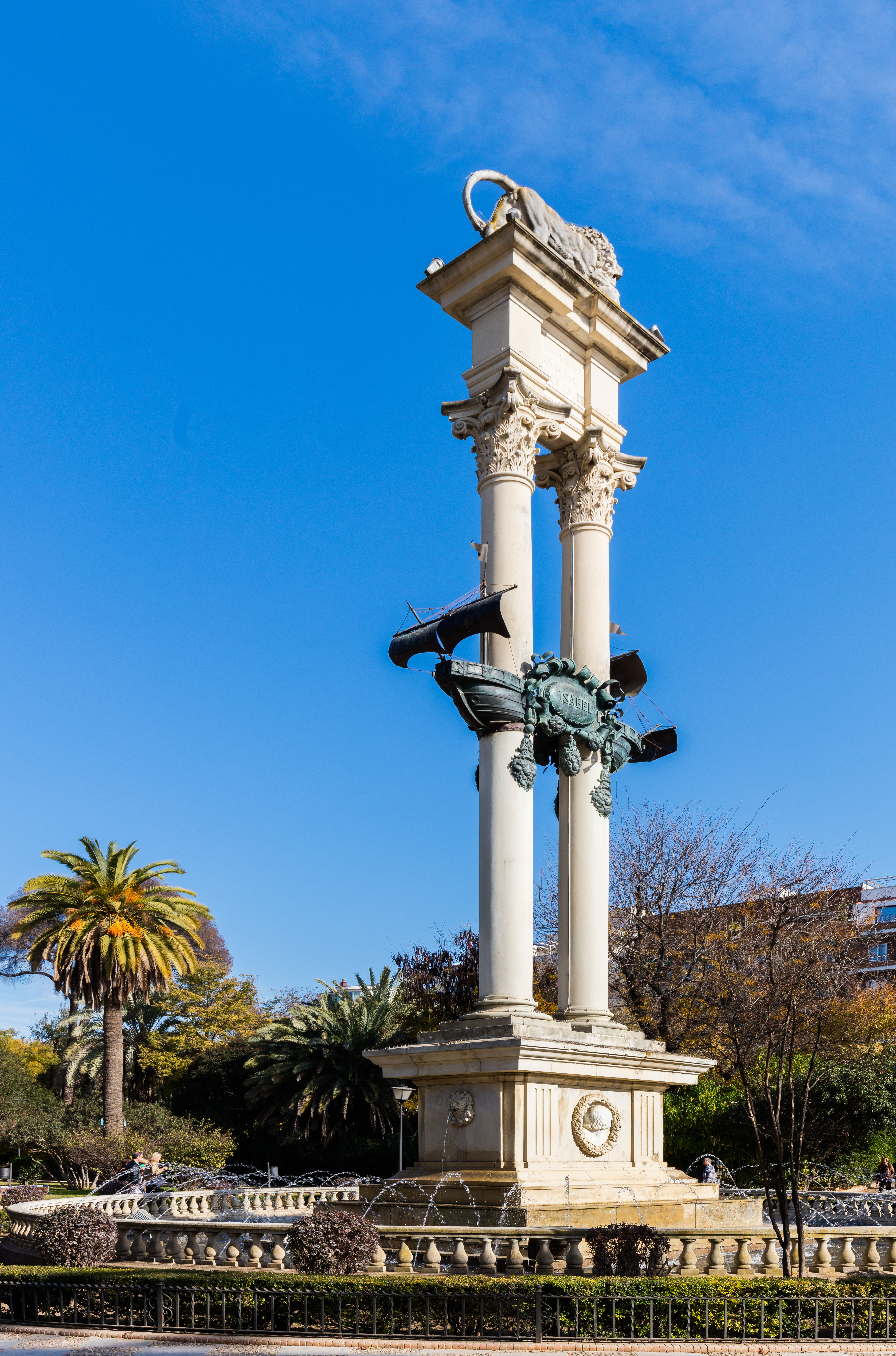 Monument to Columbus, Seville, Spain